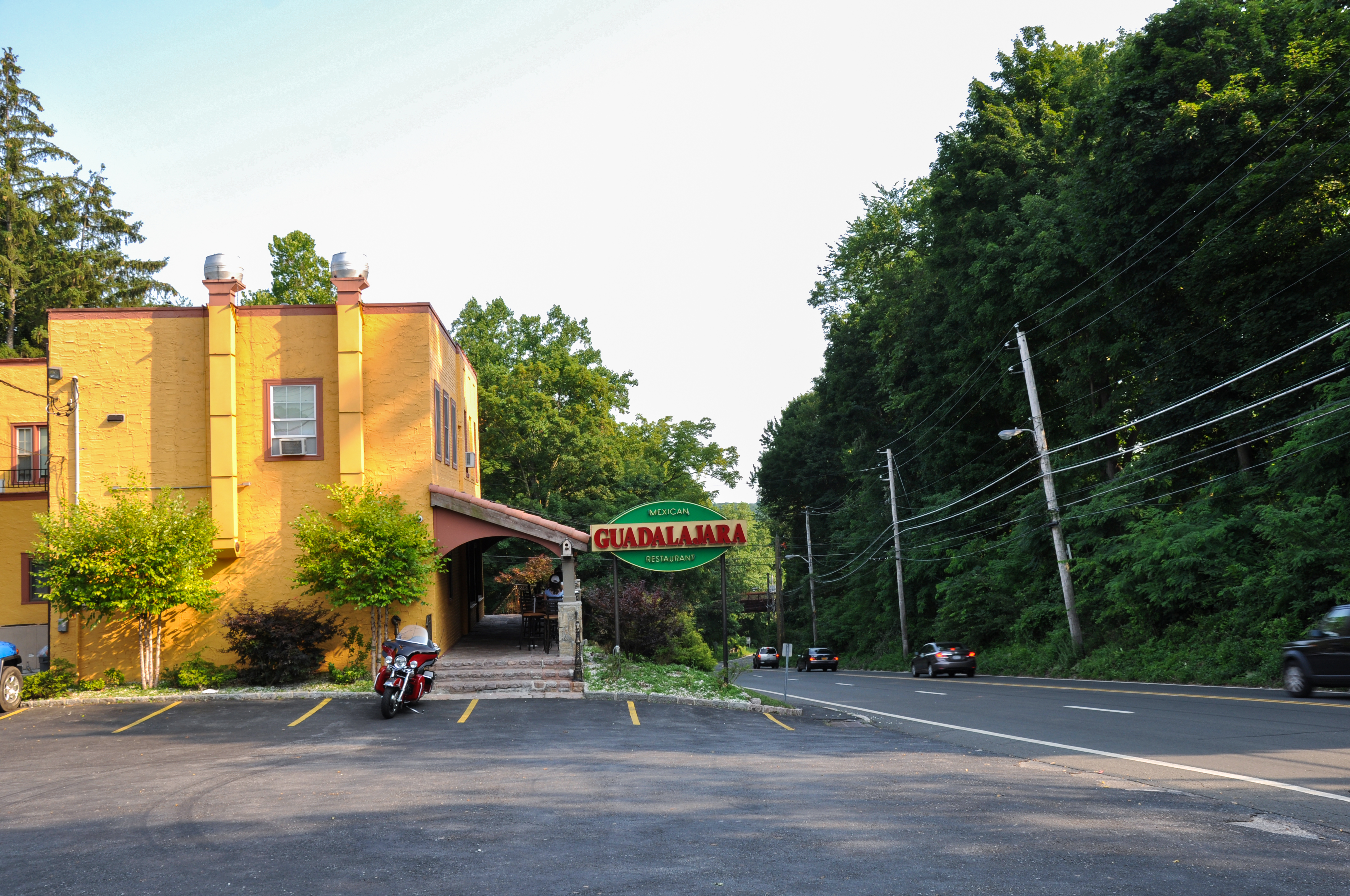 Archville, New York and the Rt. 9 bridge on June 12, 2014.